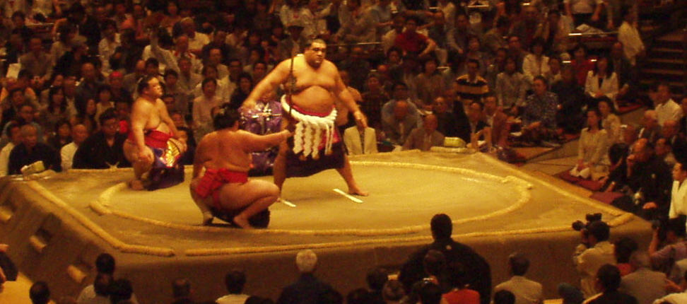 This is a photo of Musashimaru Kōyō's ring entering ceremony at the May 2002 sumo tournament